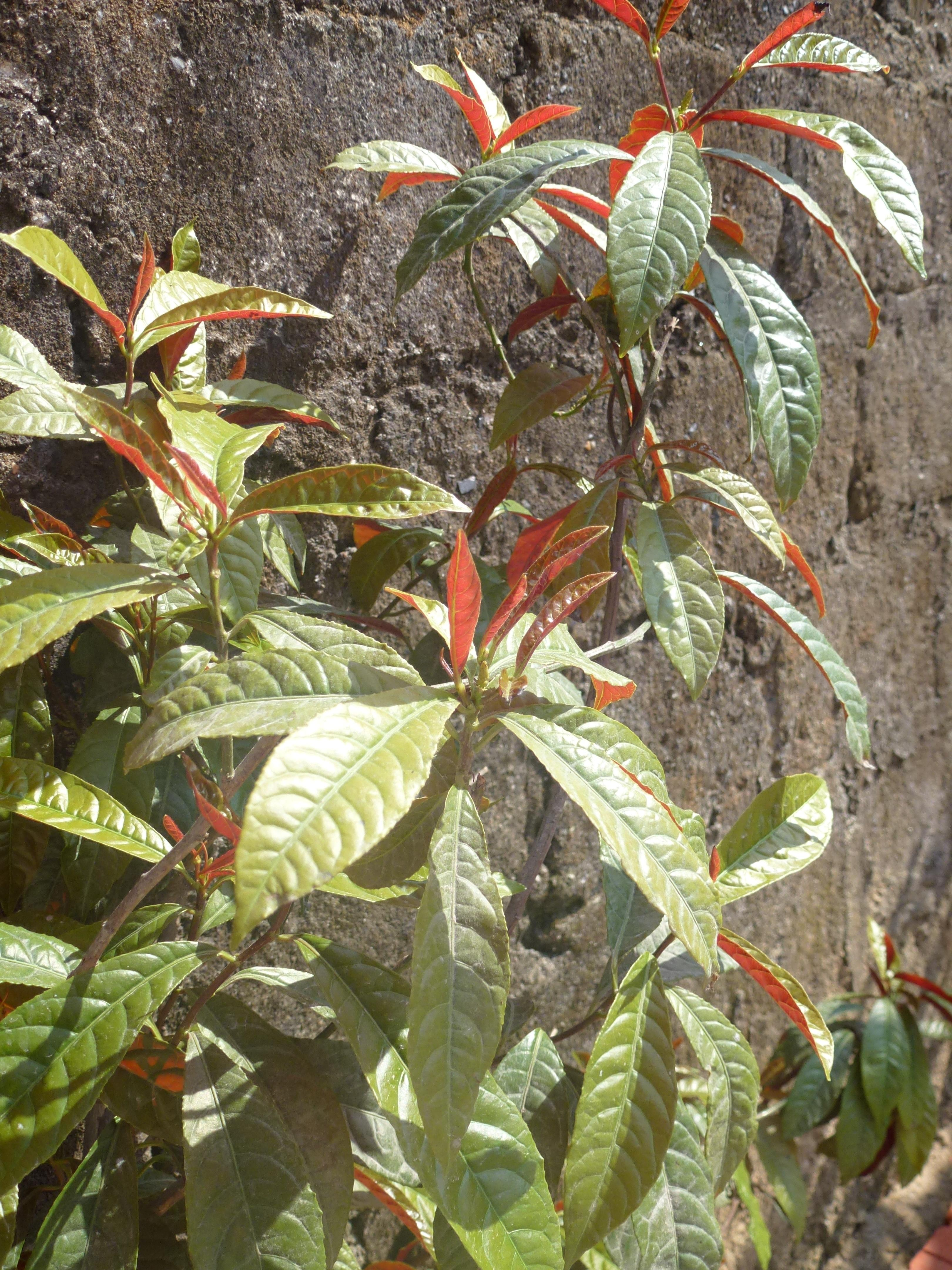 Excoecaria cochinchinensis